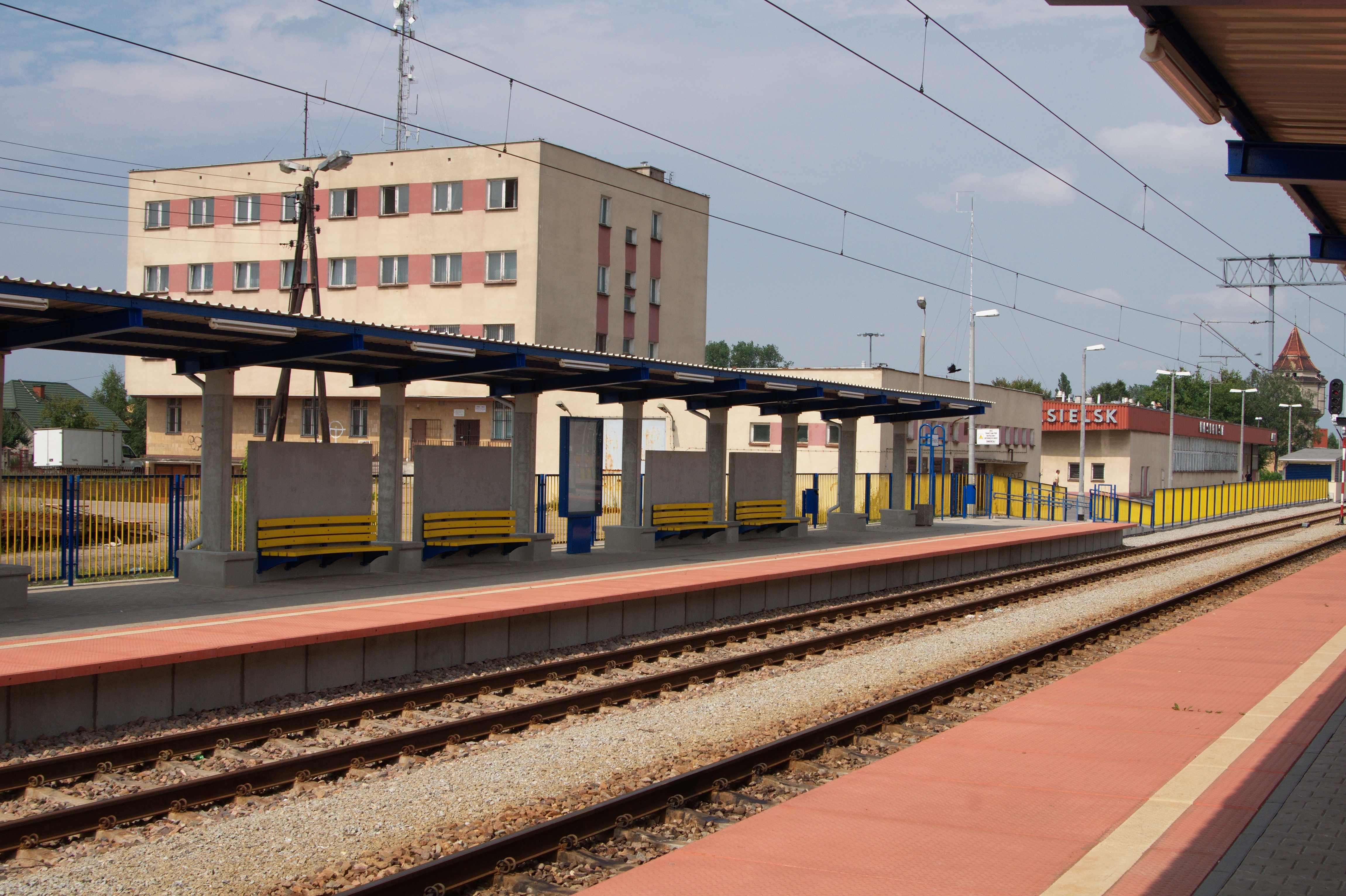 Nasielsk Railway Station north view